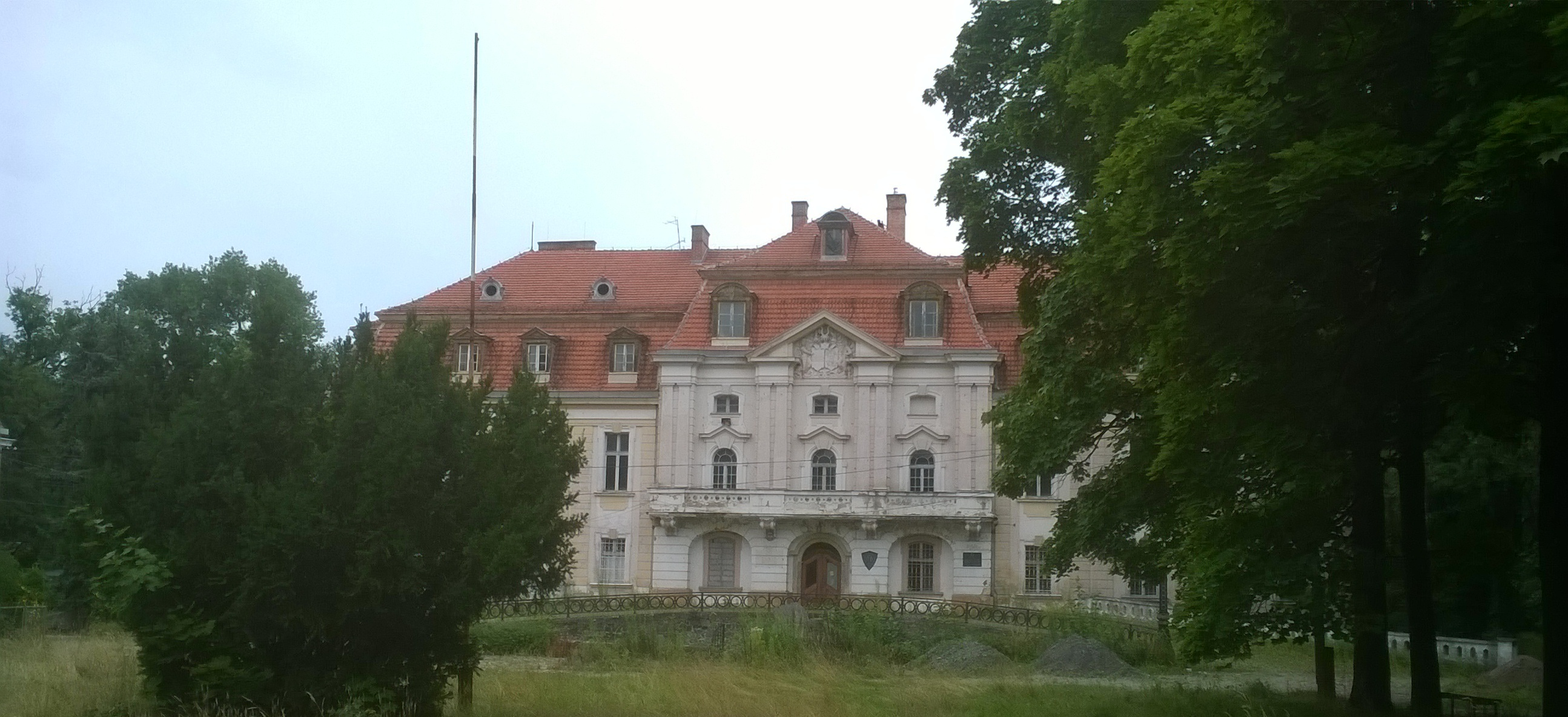 The palace is the result of a previous reconstruction in the early nineteenth century., When it gained the neo-baroque style. Layout palace and park complex is located on the north side of the village. The team consists of: a palace, two ponds and a large park. The best preserved part of the park is located on the south-west of the palace, which has preserved its original compositional. Grow here are some interesting specimens of exotic plants and natural monuments are preserved as avenues and avenues.